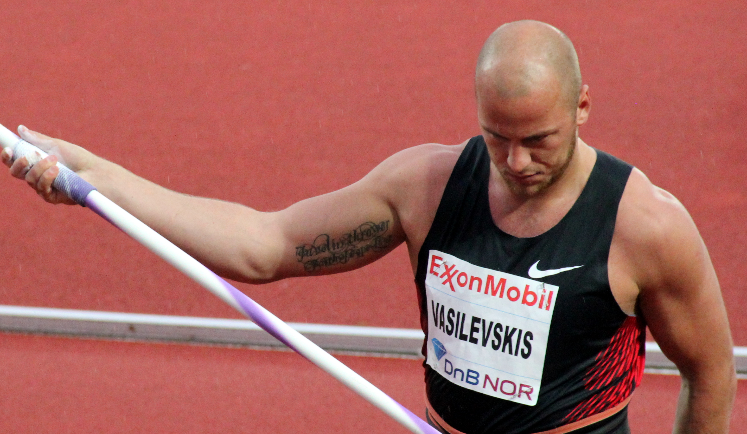 Vadims Vasiļevskis at the 2011 Bislett Games